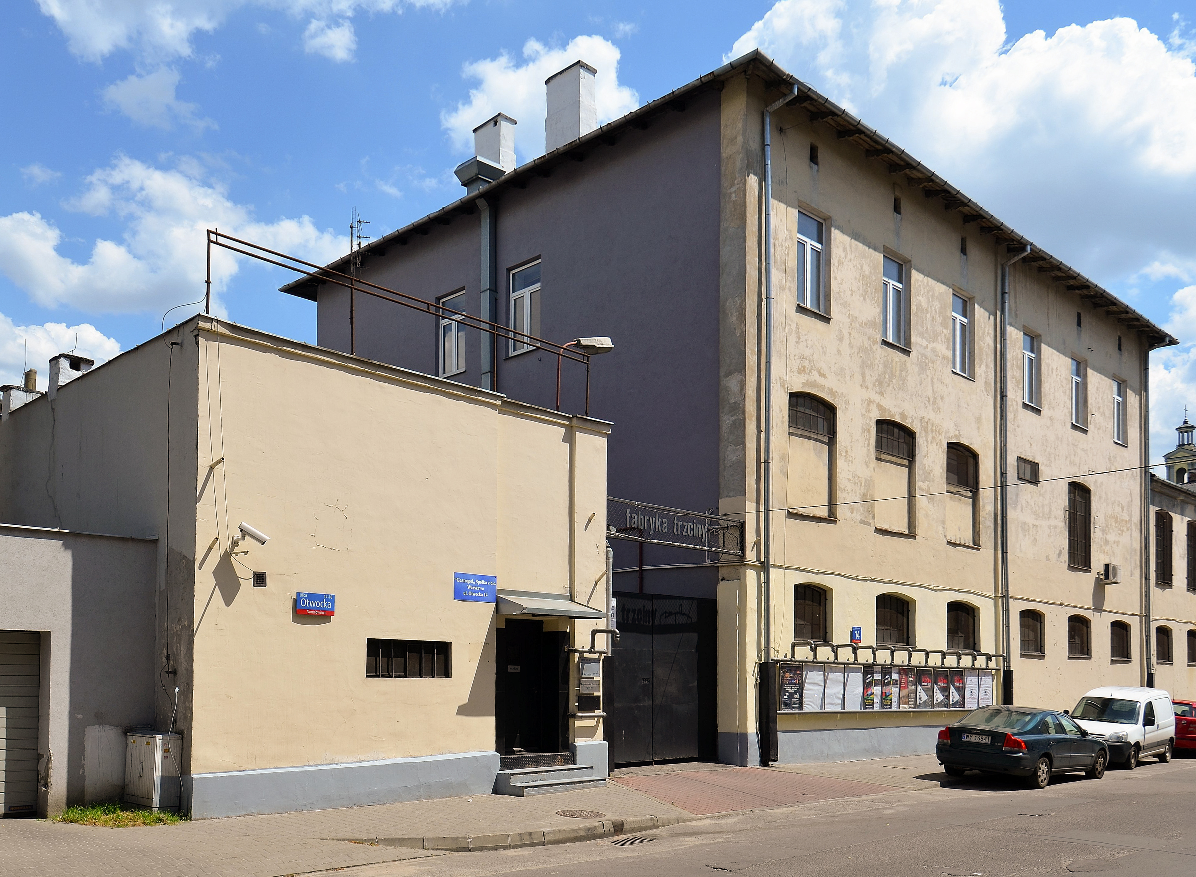 Fabryka Trzciny at 14 Otwocka Street in Warsaw